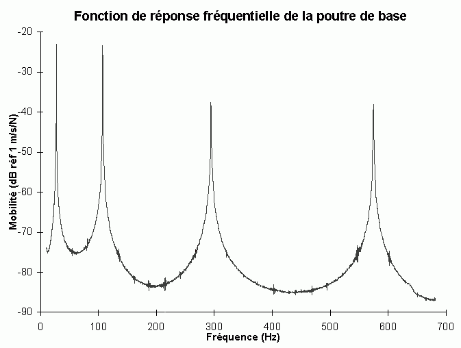 typical frequency response function of a steel beam.